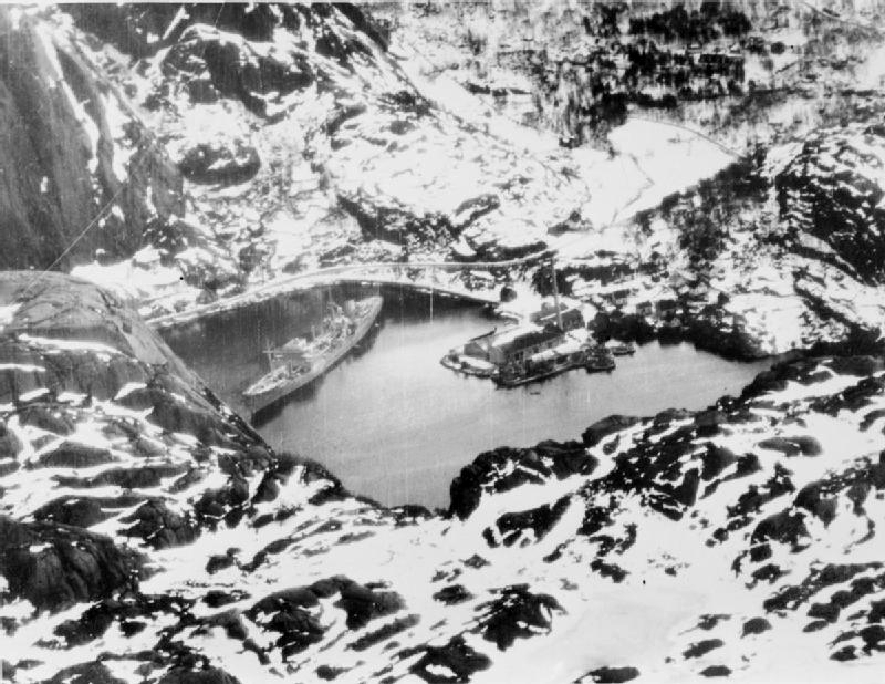 Aerial reconnaissance photo of the German supply ship Altmark moored in Jossing Fjord, Norway, photographed by a Lockheed Hudson of No. 18 Group prior to the Altmark Incident by HMS Cossack (F03) on 16 February 1940.